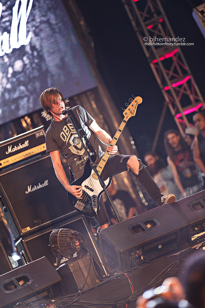 Bless The Fall @ Pulp Summer Slam 12